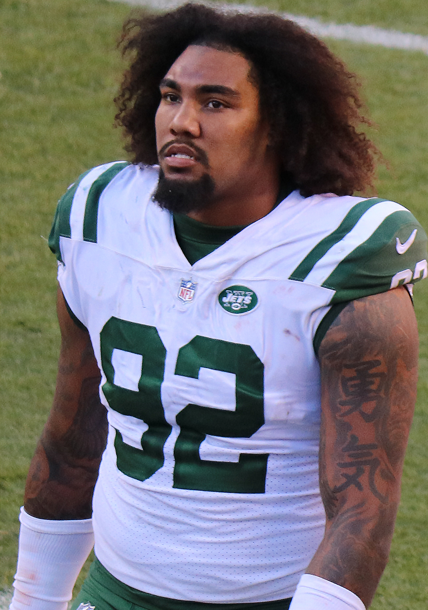 Leonard Williams, a National Football League player.